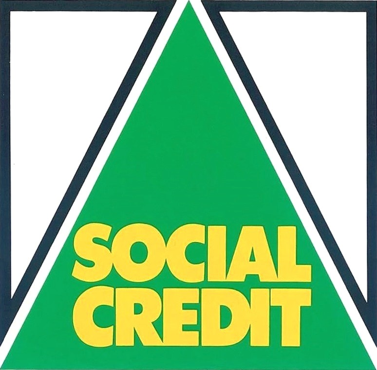 Logo of the Social Credit Party 1981-85, 2018-2019